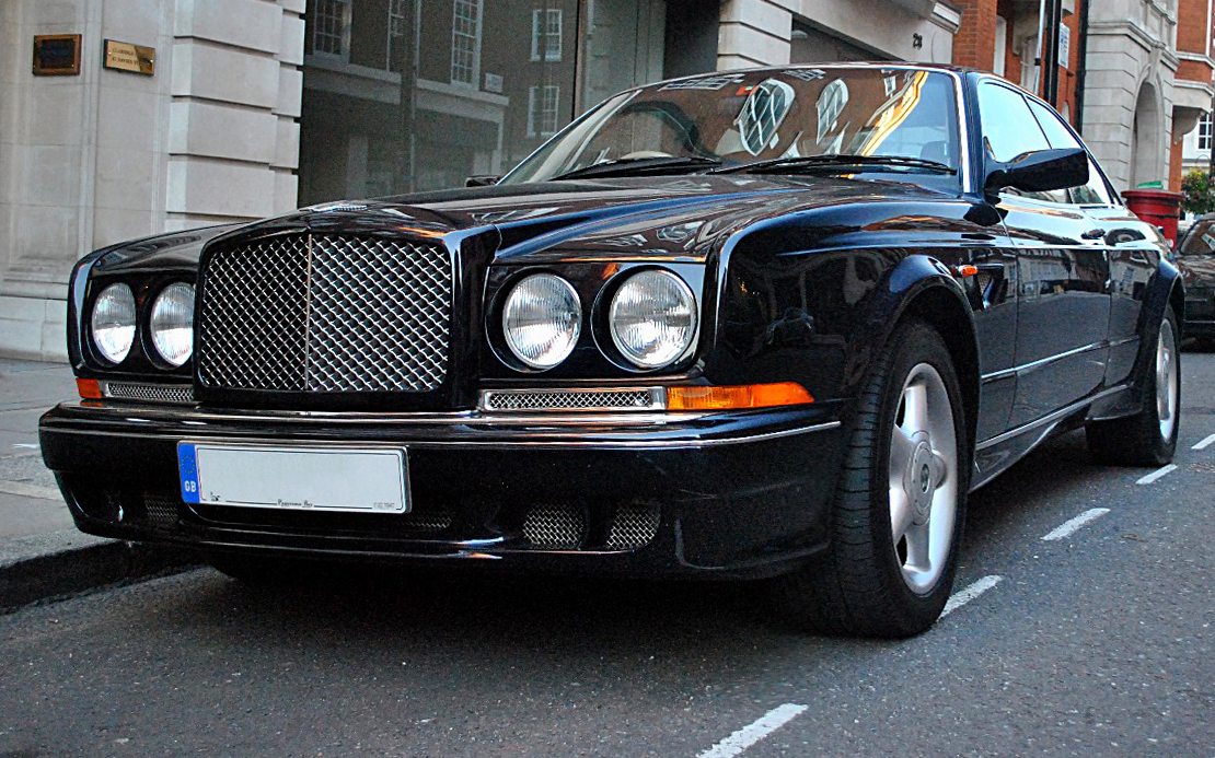 Bentley Continental T, a short wheelbase 420hp version of the Continental R